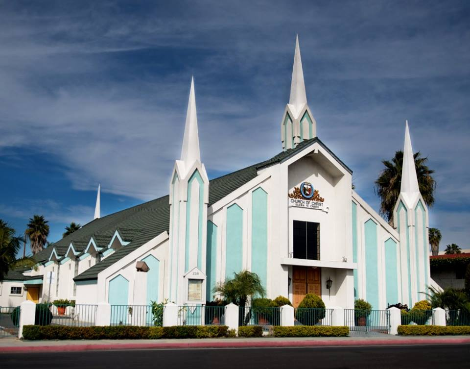 Congregation of National City SCA